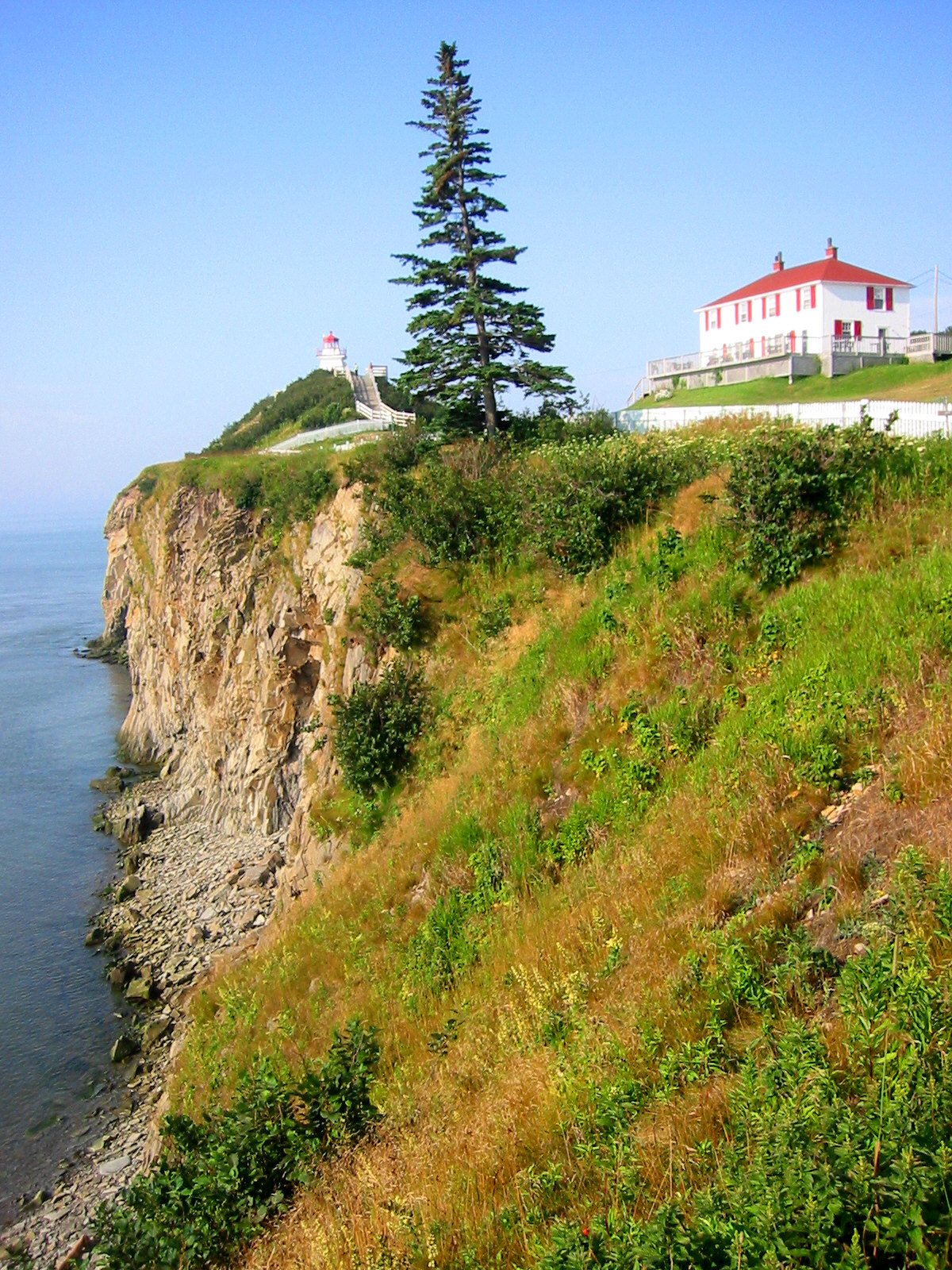 Cape Enrage Lighthouse and lighthouse keeper's house